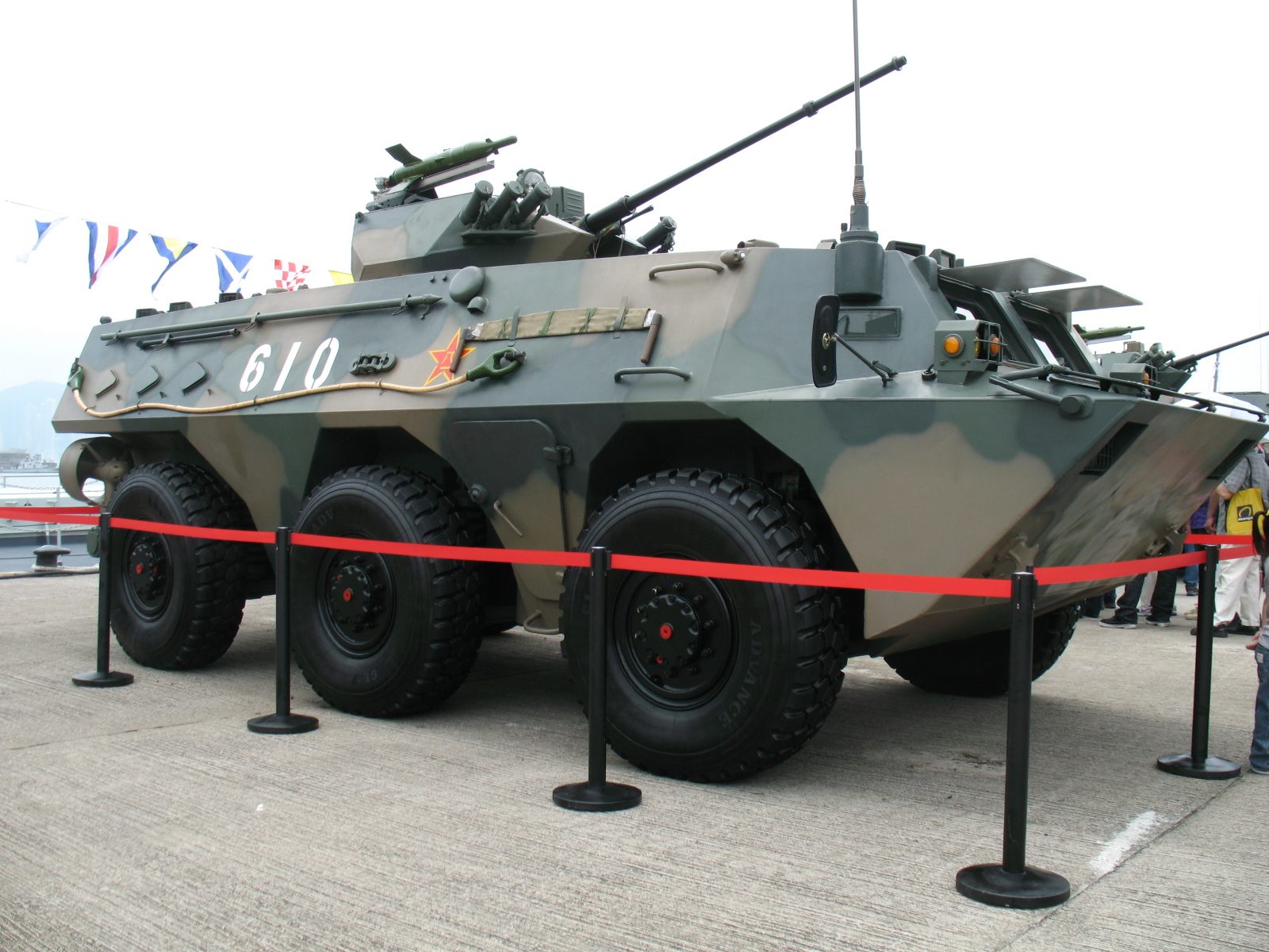 Type92 Armoured Personnel Carriers for PLA Hong Kong Garrison. 中文（香港）: 繼ZFB91型三軸裝甲戰車後，解放軍駐流港部隊陸軍另一支新型三軸裝甲戰車部隊，名為ZSL92B三軸裝甲戰車。